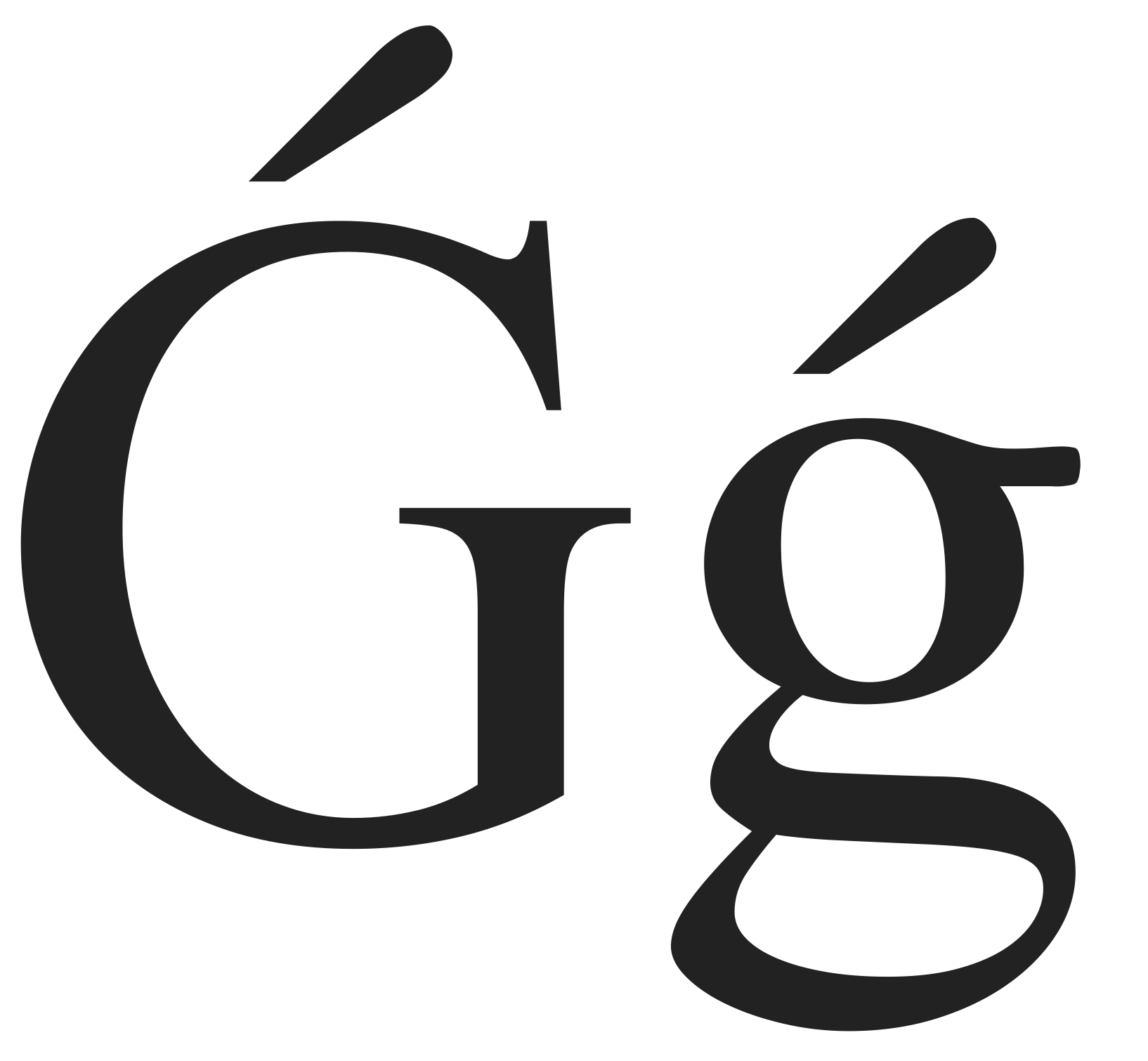 Doulos SIL glyphs for Majuscule and minuscule ǵ.